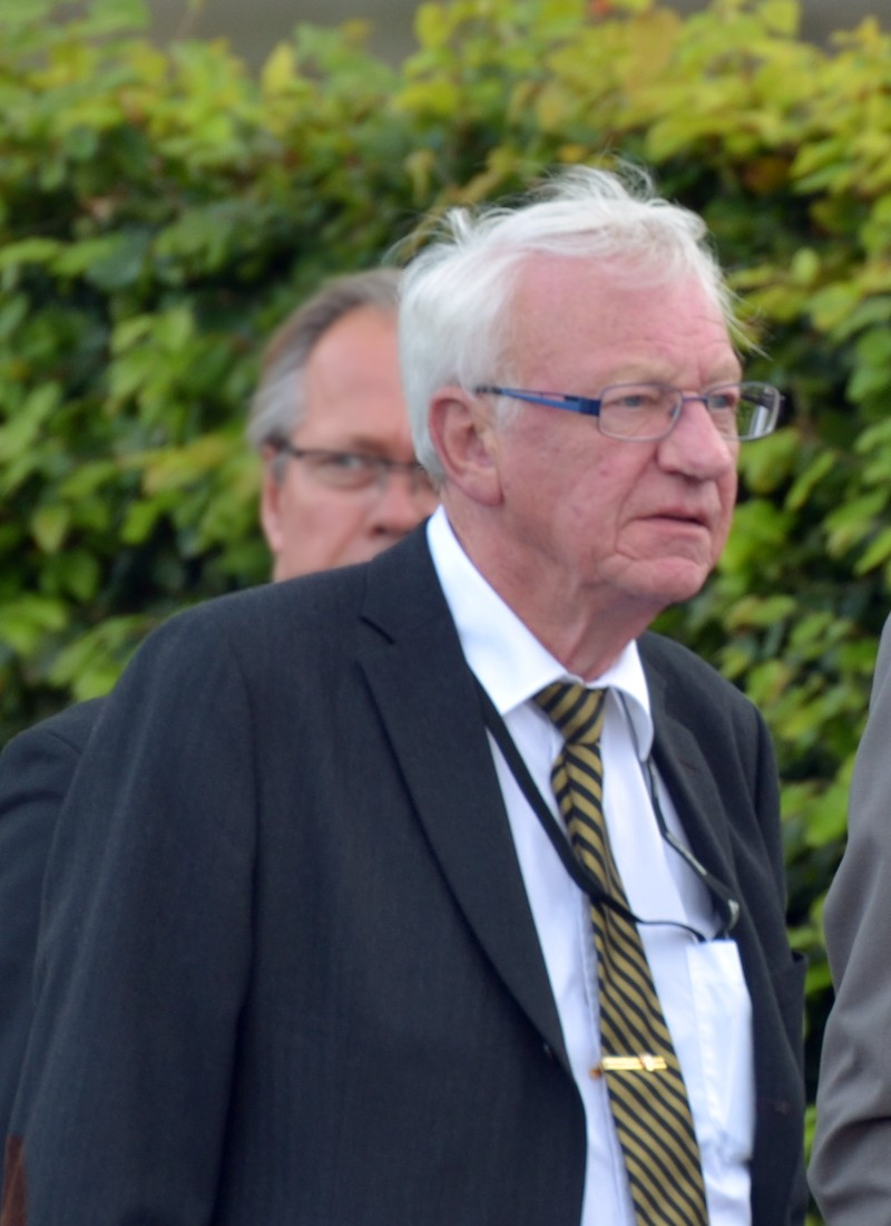 Tony Wiklander, member of the Riksdag for the Sweden Democratic Party.